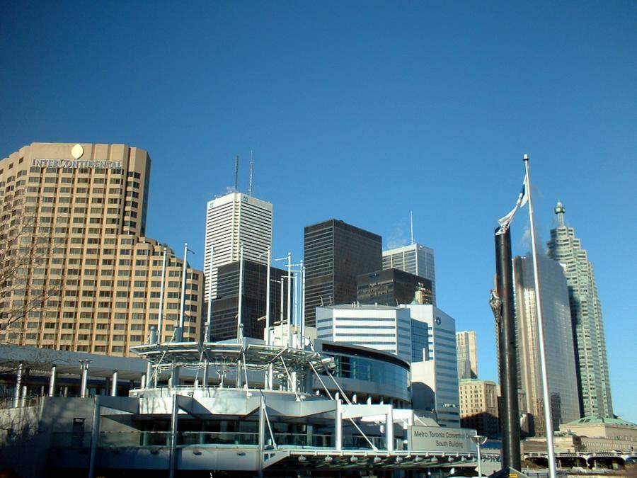 Metro Toronto Convention Centre